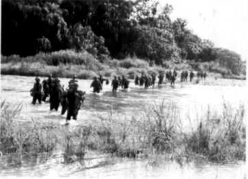 Carlson's 2nd Marine Raiders crosses a river on Guadalcanal in November, 1942.